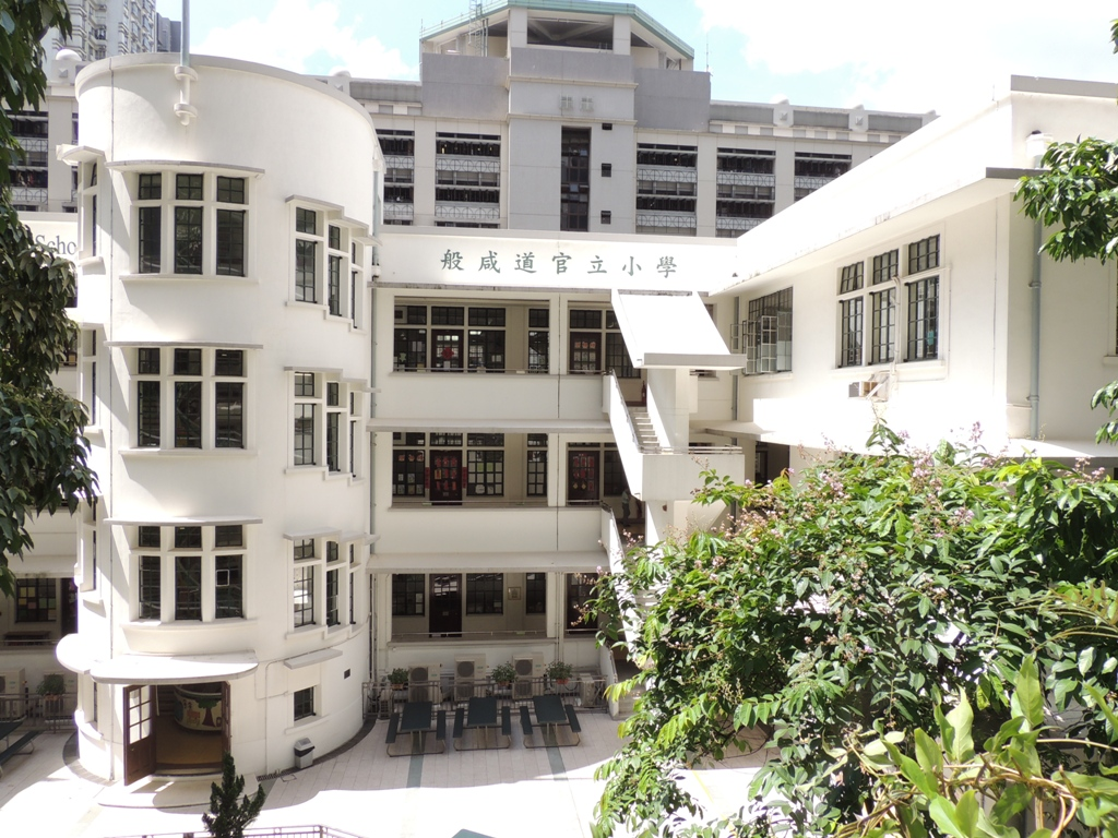 Bonham Road Government Primary School